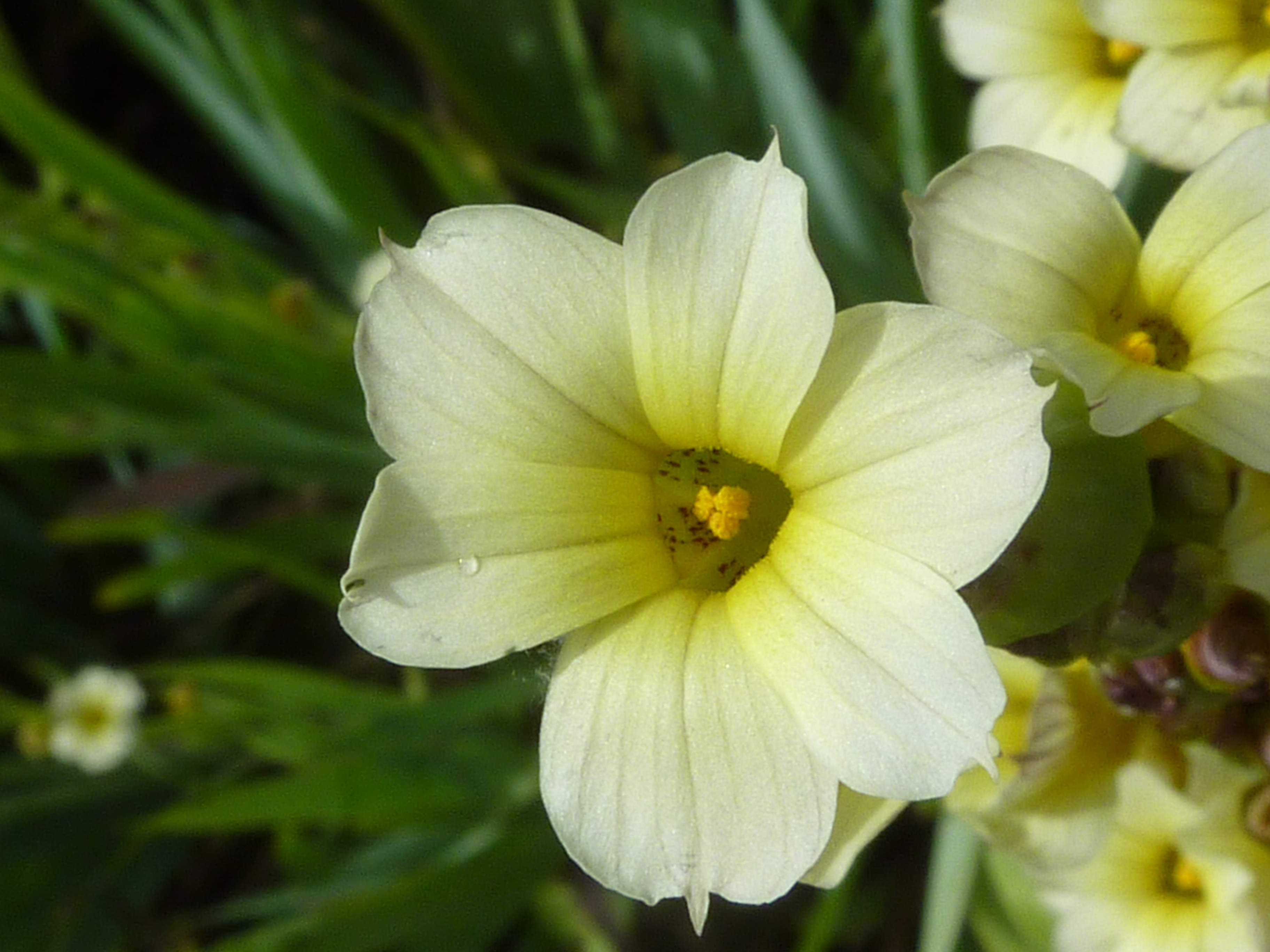 Taken in the Cambridge University Botanic Garden